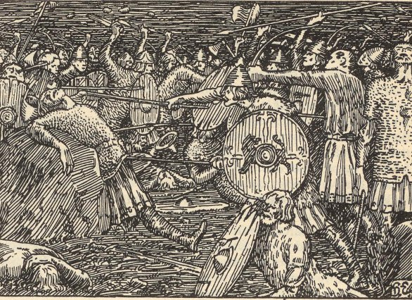 Halfdan Egedius: Illustration for Olav den helliges saga. Snorre 1899-edition. An illustration of the Battle of Stiklestad. «Kong Olavs Fald.» nb: «Kong Olavs fall.» nn: «Kong Olav fell.»